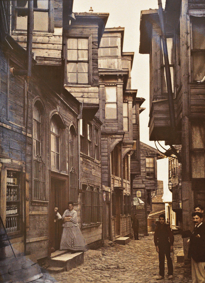 Wooden houses in Beyoğlu Istanbul, Turkey, 1912. Autochrome from Albert Kahn's Archives de la planète.